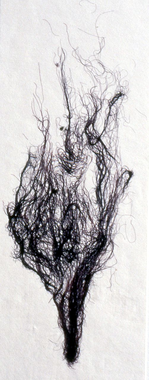 Bangia fuscopurpurea (Dillwyn) Lyngbye var. atropurpurea (Roth) Lyngbye (Syn. Bangia atropurpurea (Roth) C. Agardh), herbarium sheet. Collected 1989-06, Heligoland (Germany)